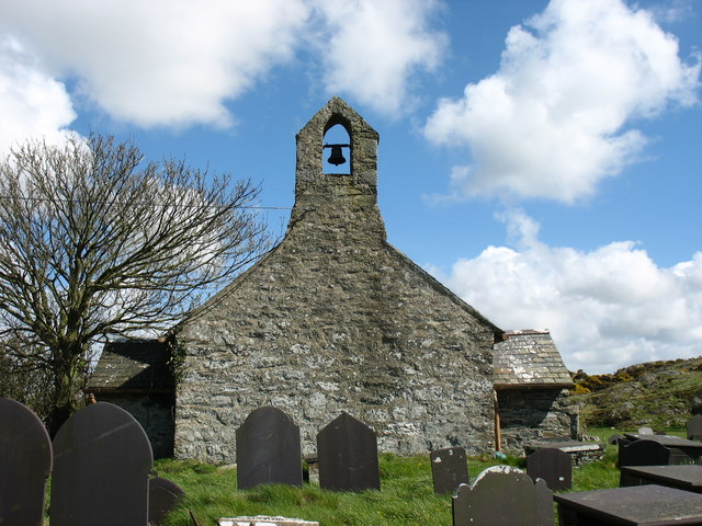 Eglwys St Fflewin Church from the west